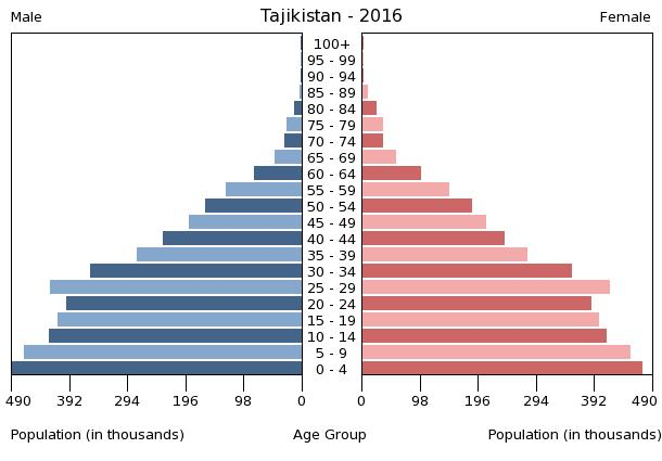 The population pyramid of Tajikistan illustrates the age and sex structure of population and may provide insights about political and social stability, as well as economic development. The population is distributed along the horizontal axis, with males shown on the left and females on the right. The male and female populations are broken down into 5-year age groups represented as horizontal bars along the vertical axis, with the youngest age groups at the bottom and the oldest at the top. The shape of the population pyramid gradually evolves over time based on fertility, mortality, and international migration trends.